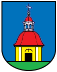 Coat of arms of Ralbitz-Rosenthal in Saxony, Germany. Hornjoserbsce: Wopon Ralbic-Róžanta.